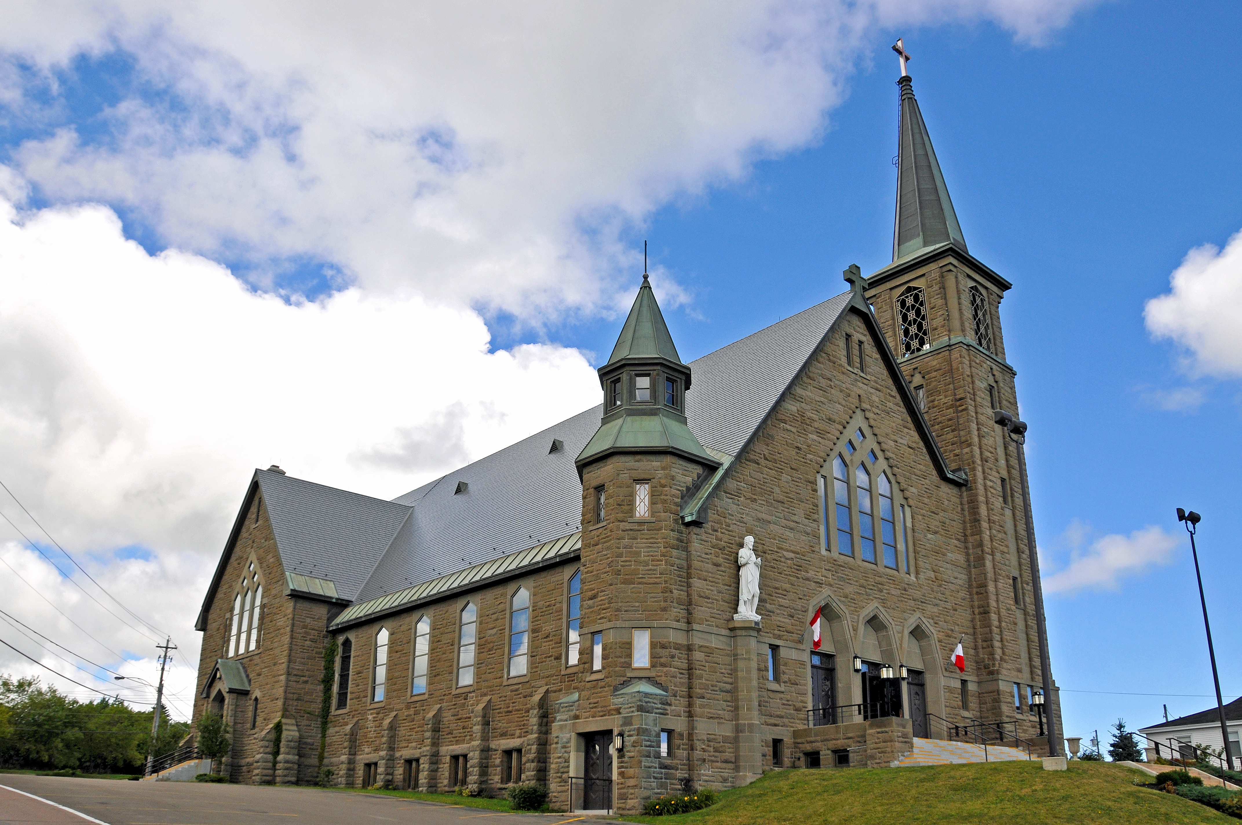 Outside St John the Baptist church in Bouctouche, New Brunswick, Canada. The imposing façade has three entranceways and a corner bell topped by a narrow spire that holds the illuminated cross high above the parish. The other end of the façade houses the baptistery turret. The statue of the church¹s patron saint is a work in Carrara marble, weighing in at four tons. This church was consecrated during ceremonies in August, 1967 and is one of the most significant examples of Dom Bellot-style architecture in Canada.